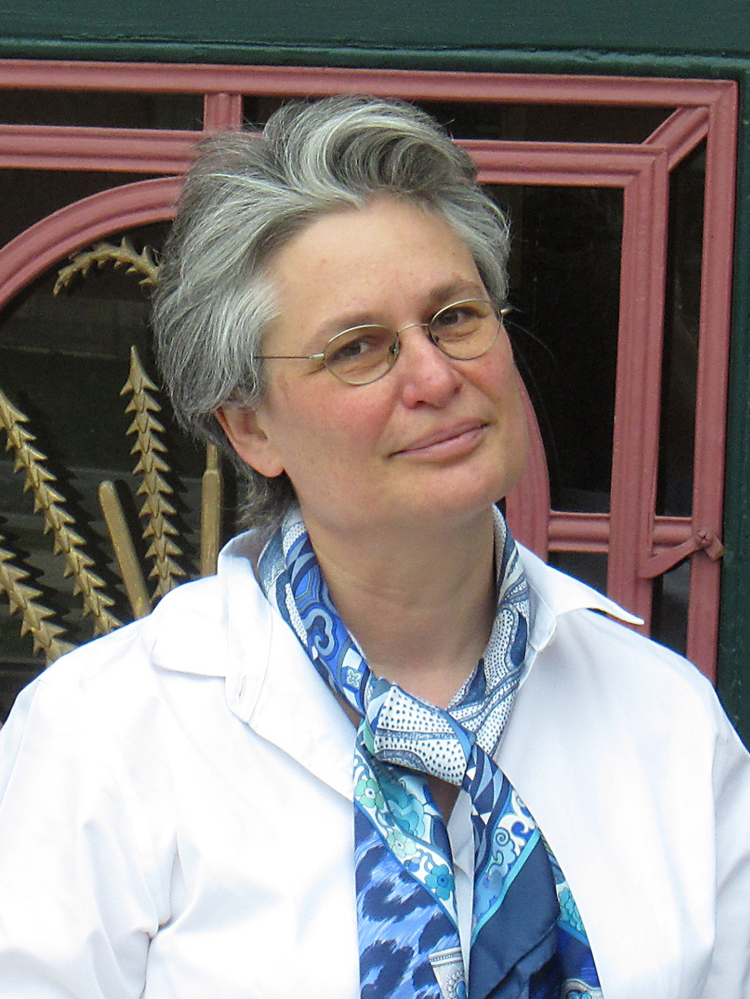 Photo of a molecular biologist Catherine Dulac.